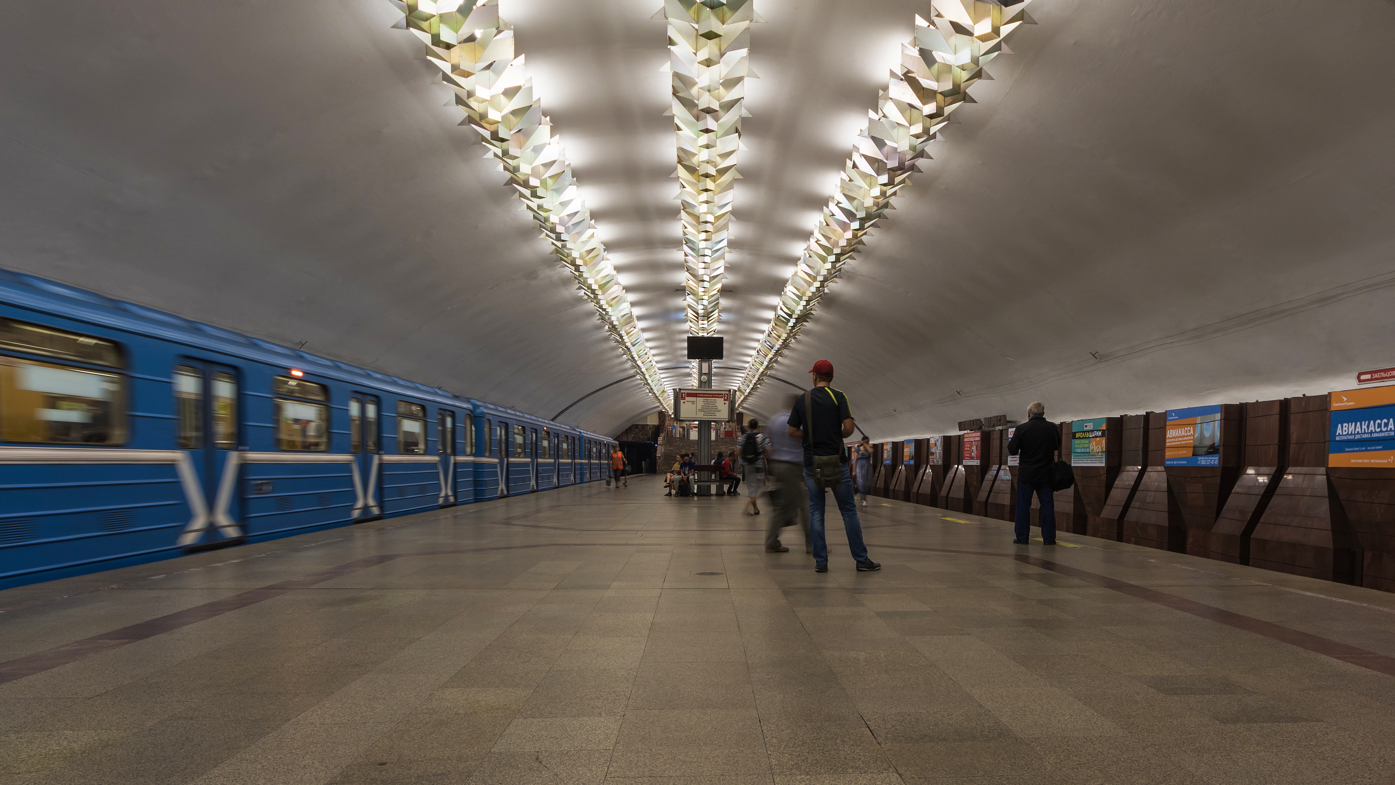 Ploschad Marksa metro station in Novosibirsk, Russia